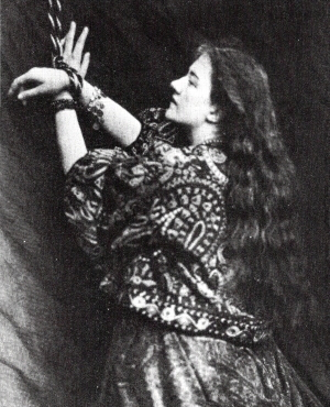 Kate Terry (later Kate Terry-Lewis) as Andromeda, photographed by Lewis Carroll in 1865. Scanned from book, John Gielgud (author) "An Actor in His Time"